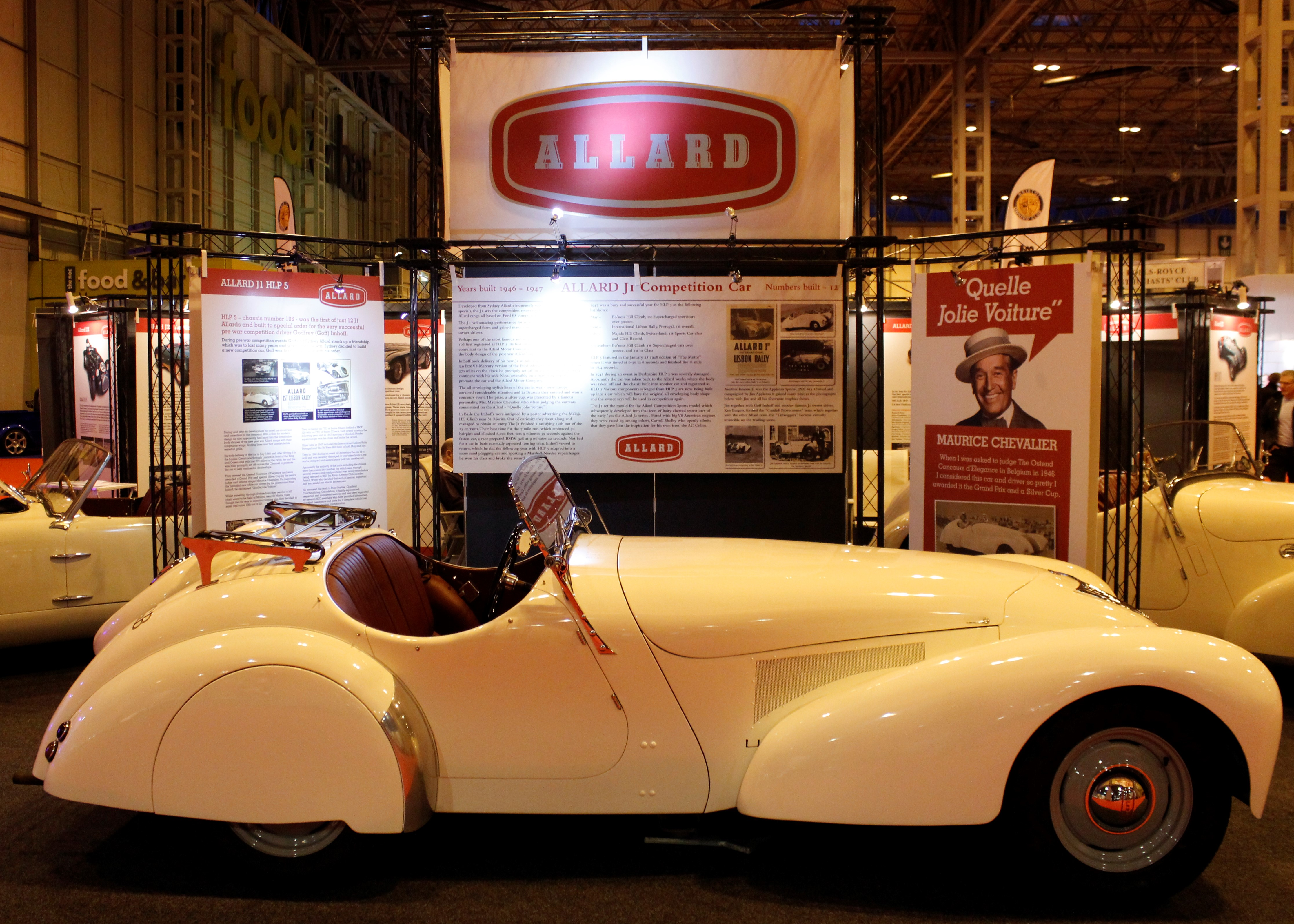 1946 Allard J1 NEC Classic car show 2015